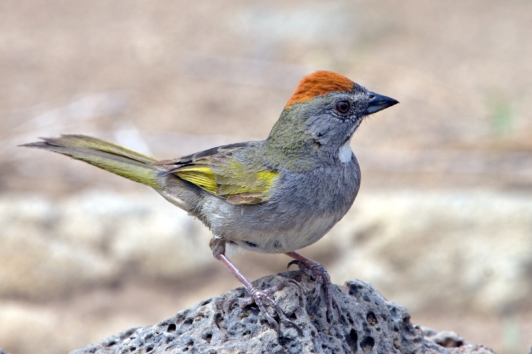 Green-tailed Towhee, Pipilo chlorurus, Cabin Lake Viewing Blinds, Deschutes National Forest, Near Fort Rock, Oregon